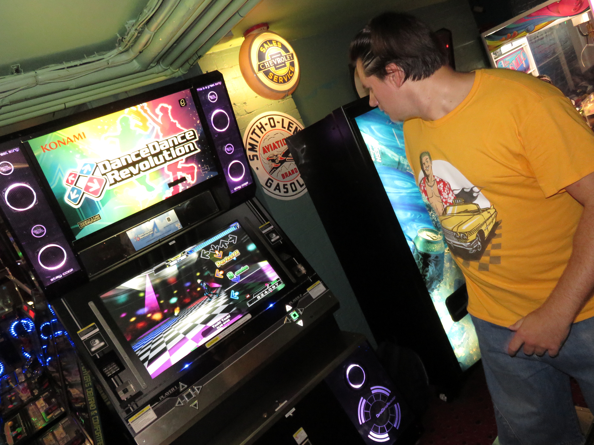 A person playing DDR A's stage.